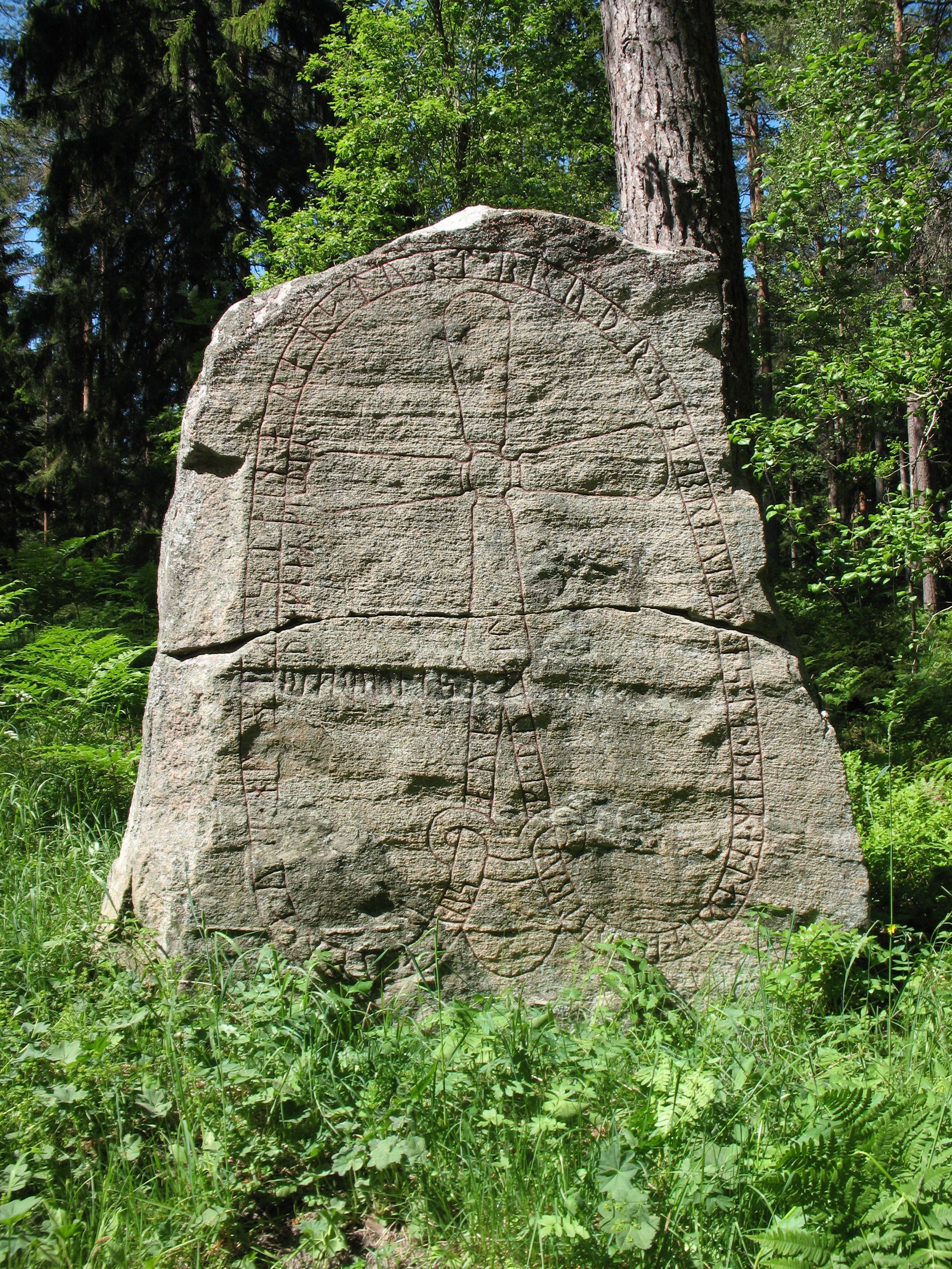 Runestone Sö 34 in Trosa municipality, Sweden.